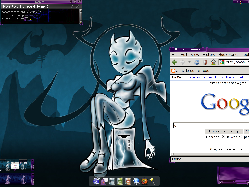 It Enlightenment 0.16 with theme EvilJester and wbar running in a iBook PowerPC with Debian GNU/Linux